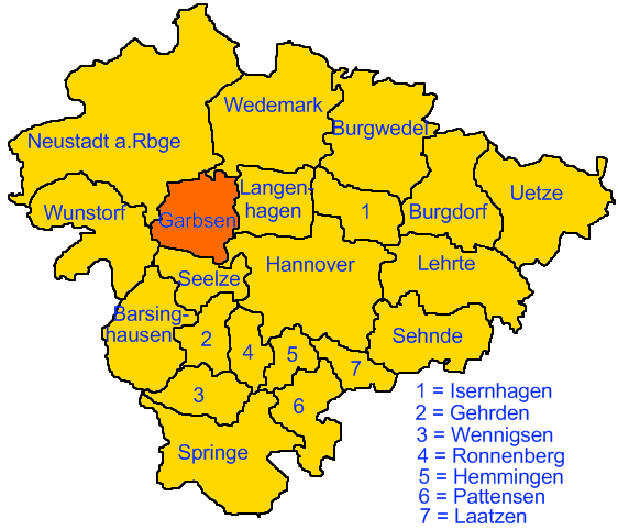 Location of Garbsen in Region Hannover